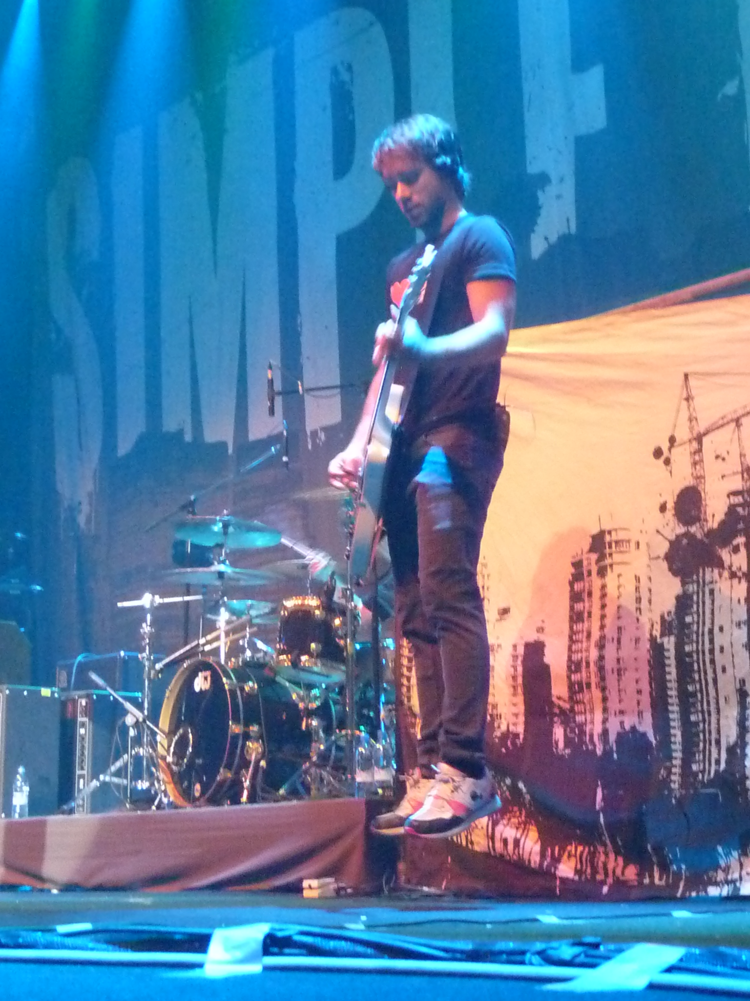 Sebastien Lefebvre of Simple Plan takes to the air in Moscow, 18 August 2009.